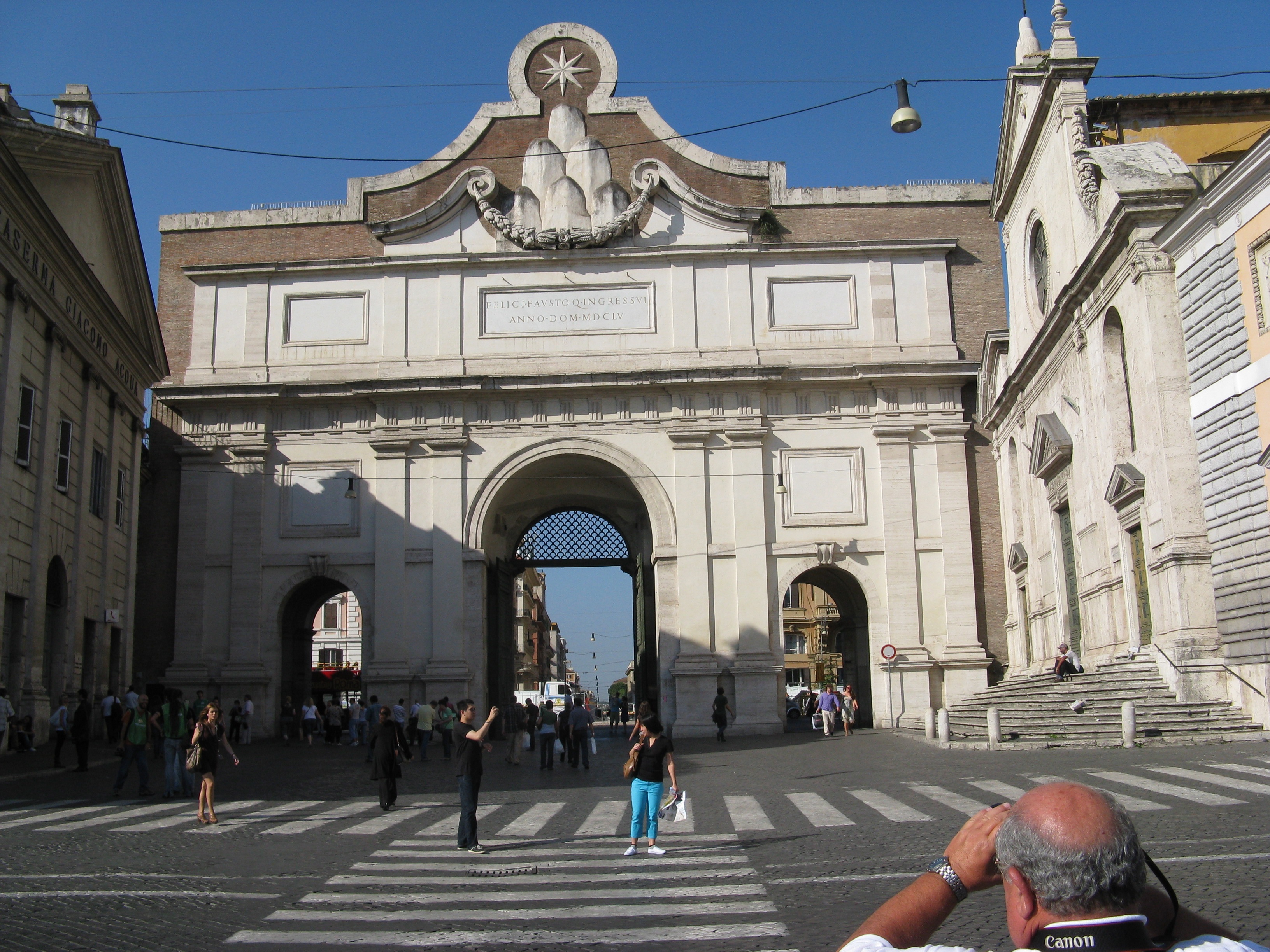 Porta del Popolo, Bernini decorated the inner face.